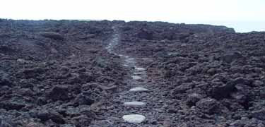 Ala Loa — trail section of the Ala Kahakai National Historic Trail. On the National Register of Historic Places on the island of Hawaiʻi, in the state of Hawaii.